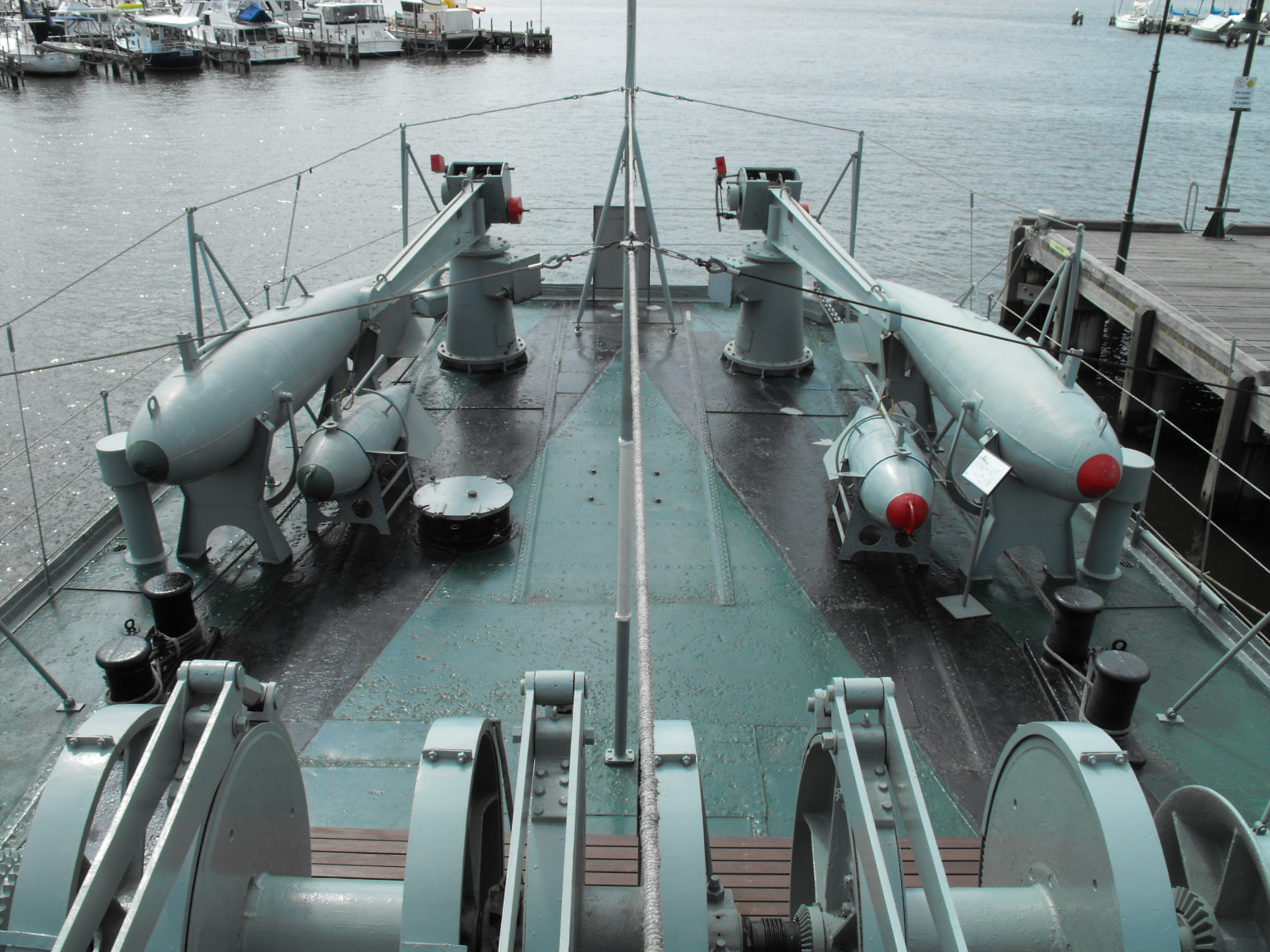 Port and starboard paravanes stored on the deck of the World War II minesweeper/corvette (now museum ship) HMAS Castlemaine